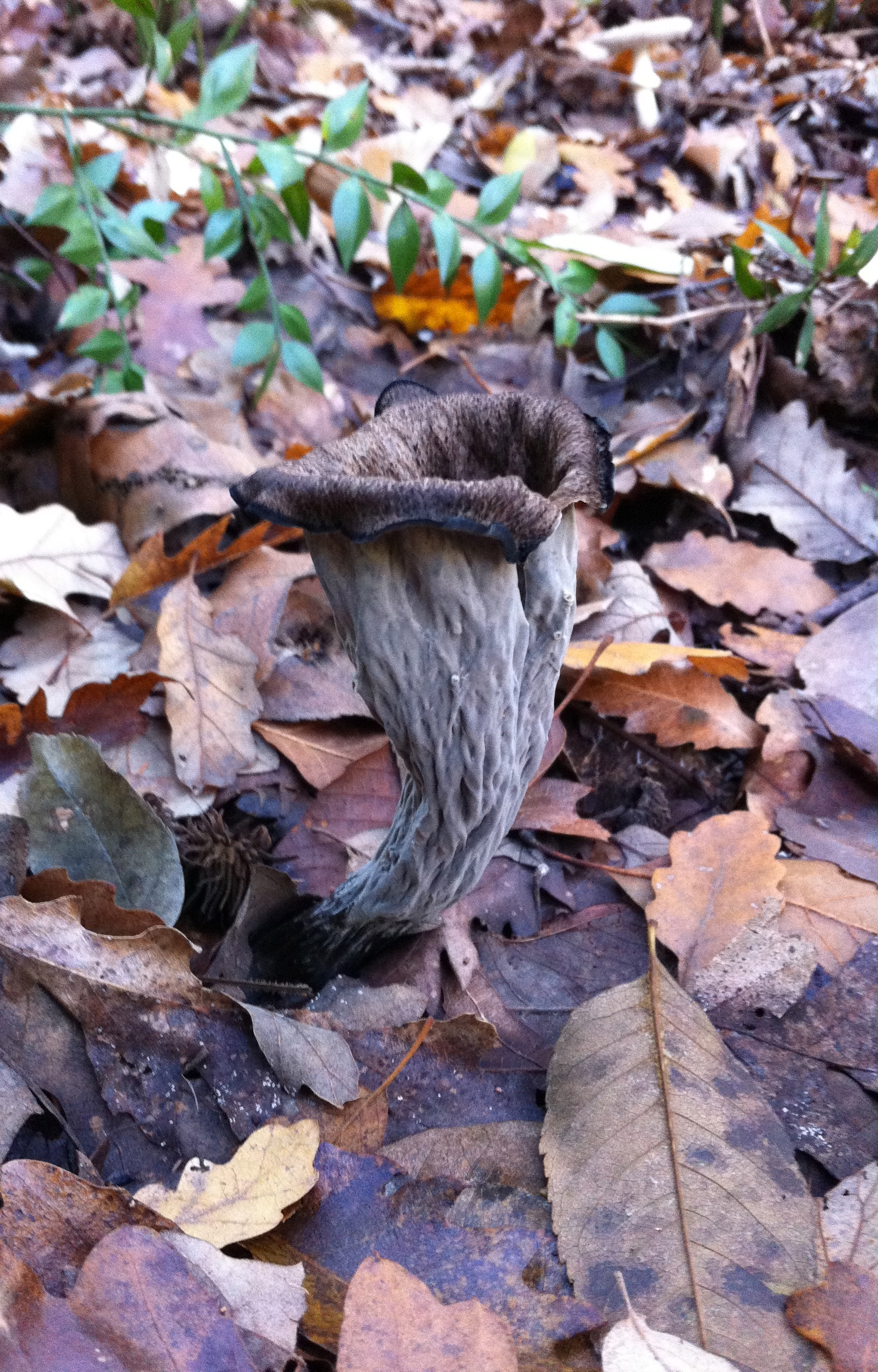 Craterellus